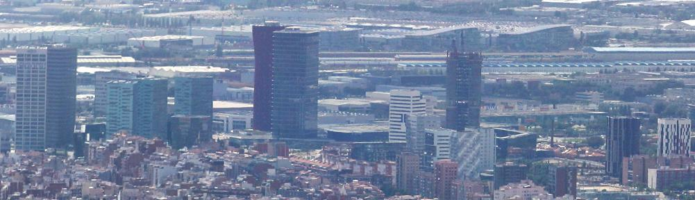 Gran Via center in Barcelona in Granvia L'H district of L'Hospitalet de Llobregat. Skyscrapers, on the left: Torre Inbisa (white colour), Torre Zenit, Torres Europa, Hotel Porta Fira (red colour), Torre Realia BCN, Hotel Catalonia Plaza Europa (on the picture still under construction - on the upper floors)